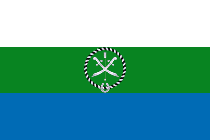 Rtischevo (Saratov oblast), flag